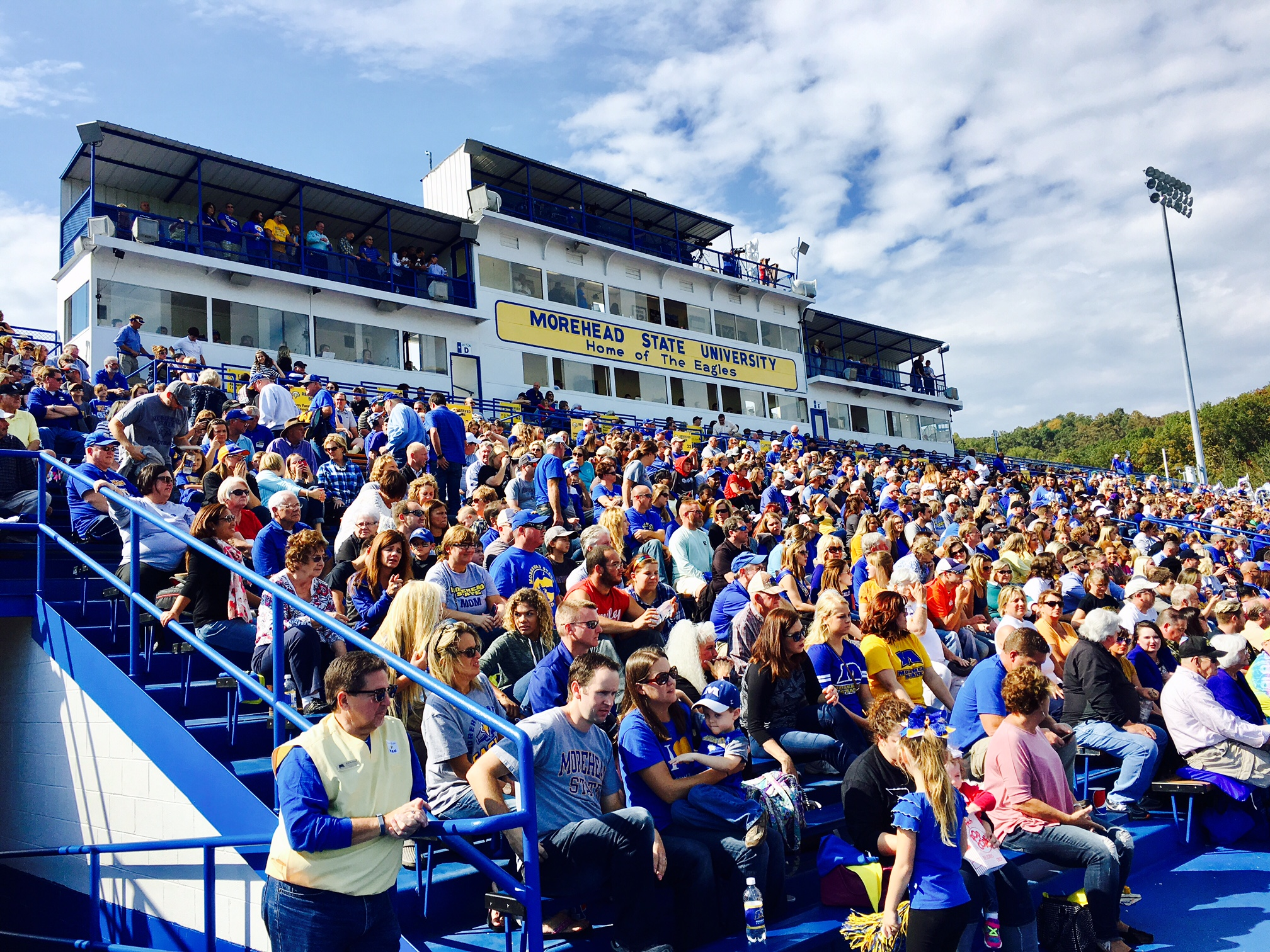 Jayne Stadium during Morehead State University Homecoming.